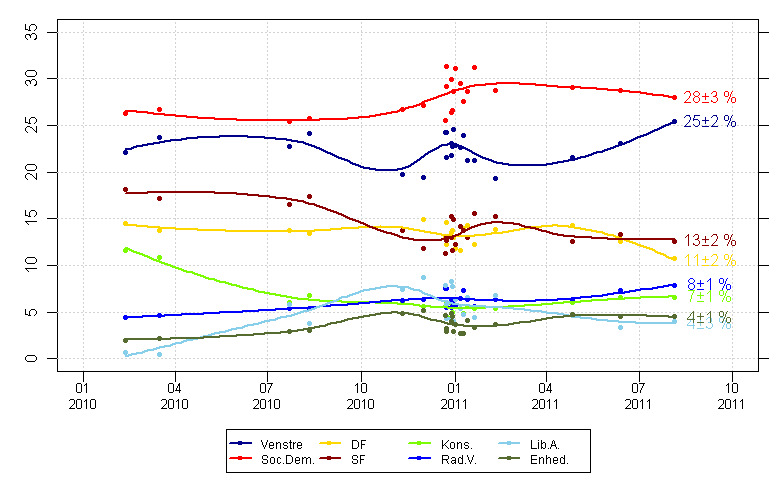 Graph showing support for political parties in Denmark since the start of 2010.Data is obtained from the Wikipedia page [1]